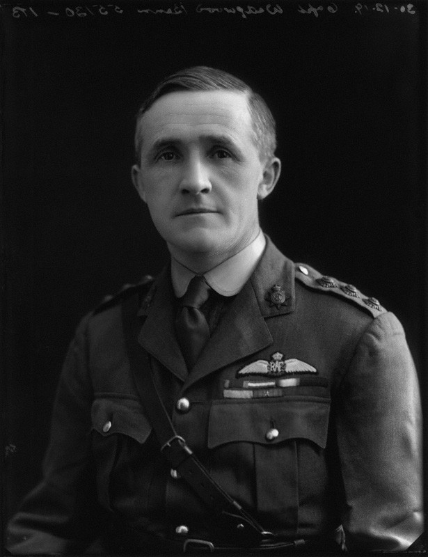 Portait of William Wedgwood Benn, 1st Viscount Stansgate